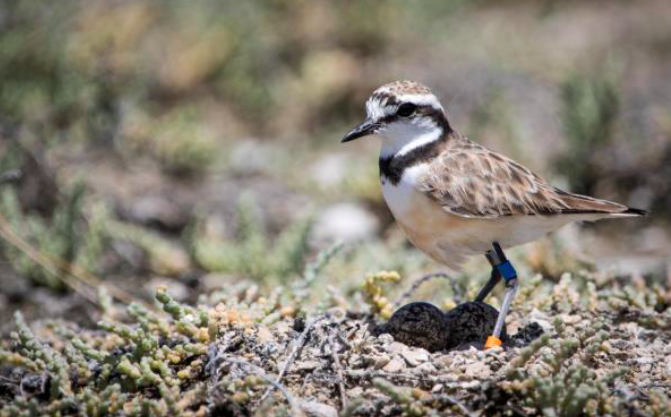 Madagascar plover incubates a nest, Eberhart-Phillips et al. 2015